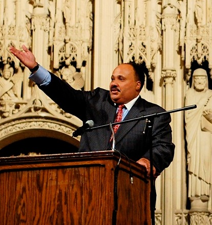 Martin Luther King, III in New York city, 2007. Martin Luther King, III is an American human rights advocate and community activist. He is the eldest son of civil rights leader Martin Luther King, Jr. and Coretta Scott King.